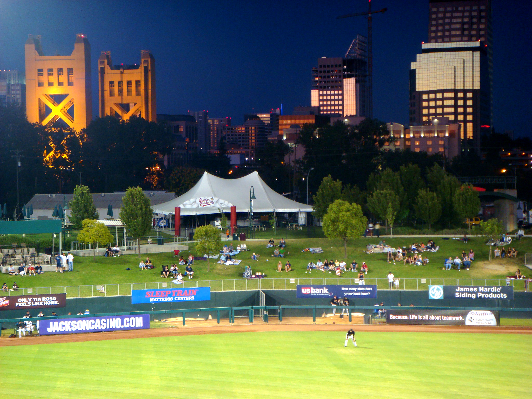 The skyline of Sacramento from the bleachers of Raley Field